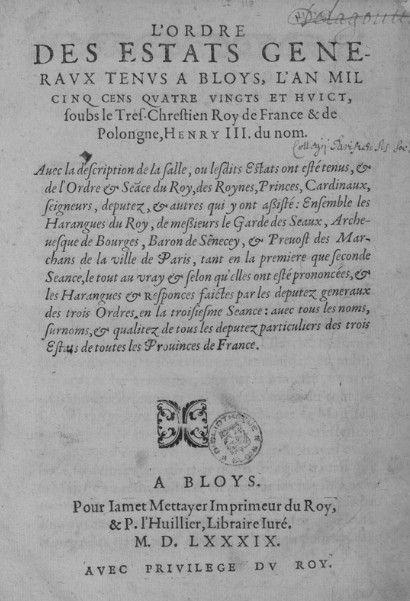 Titla page of "Ordre des Etats généraux..." (Bloys : Jamet Mettayetr et Pierre L'Huillier, 1589).